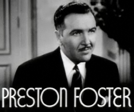 Cropped screenshot of Preston Foster from the trailer for the film First Lady